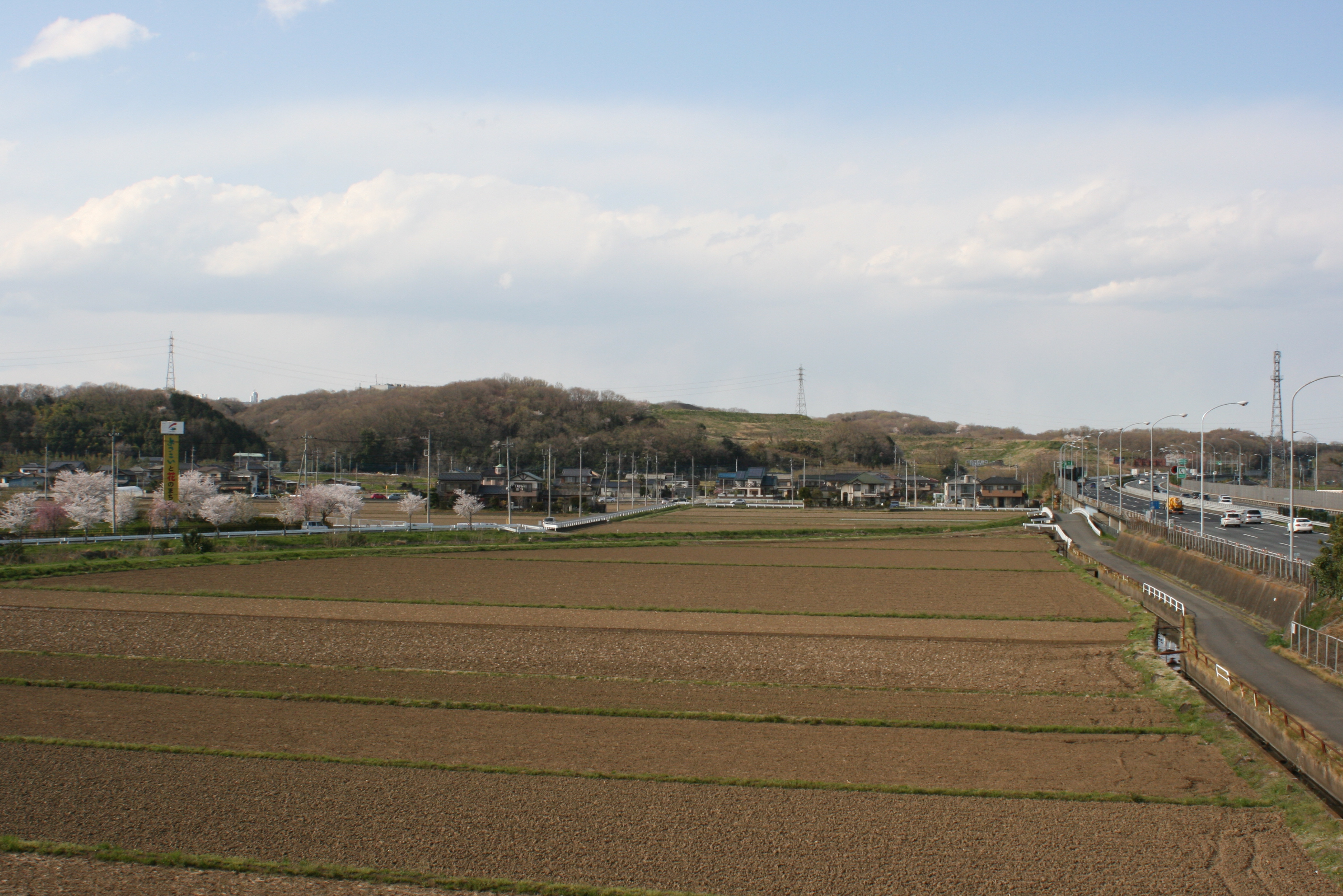 Takasaka plateau seen from Sakado